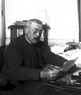 French editor and writer Alfred Vallette (1858-1935)